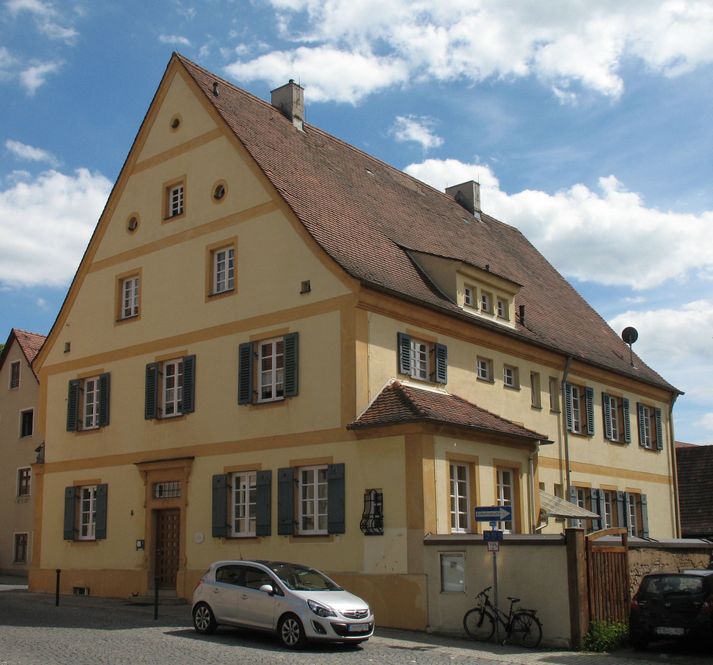 Rectory in Hilpoltstein in Bavaria, Germany